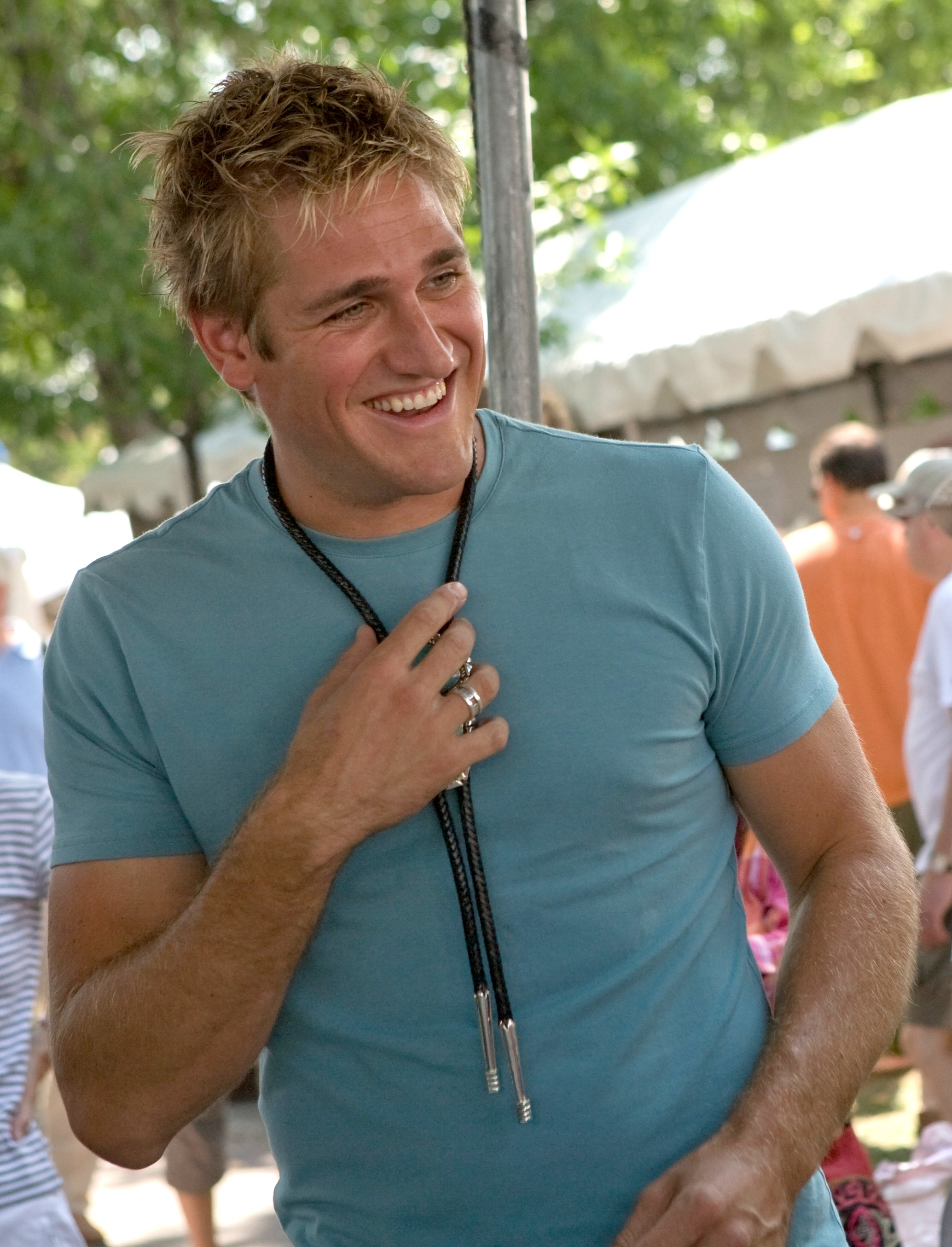 Seen with camera crew at the Indian Market, Santa Fe, 2007.